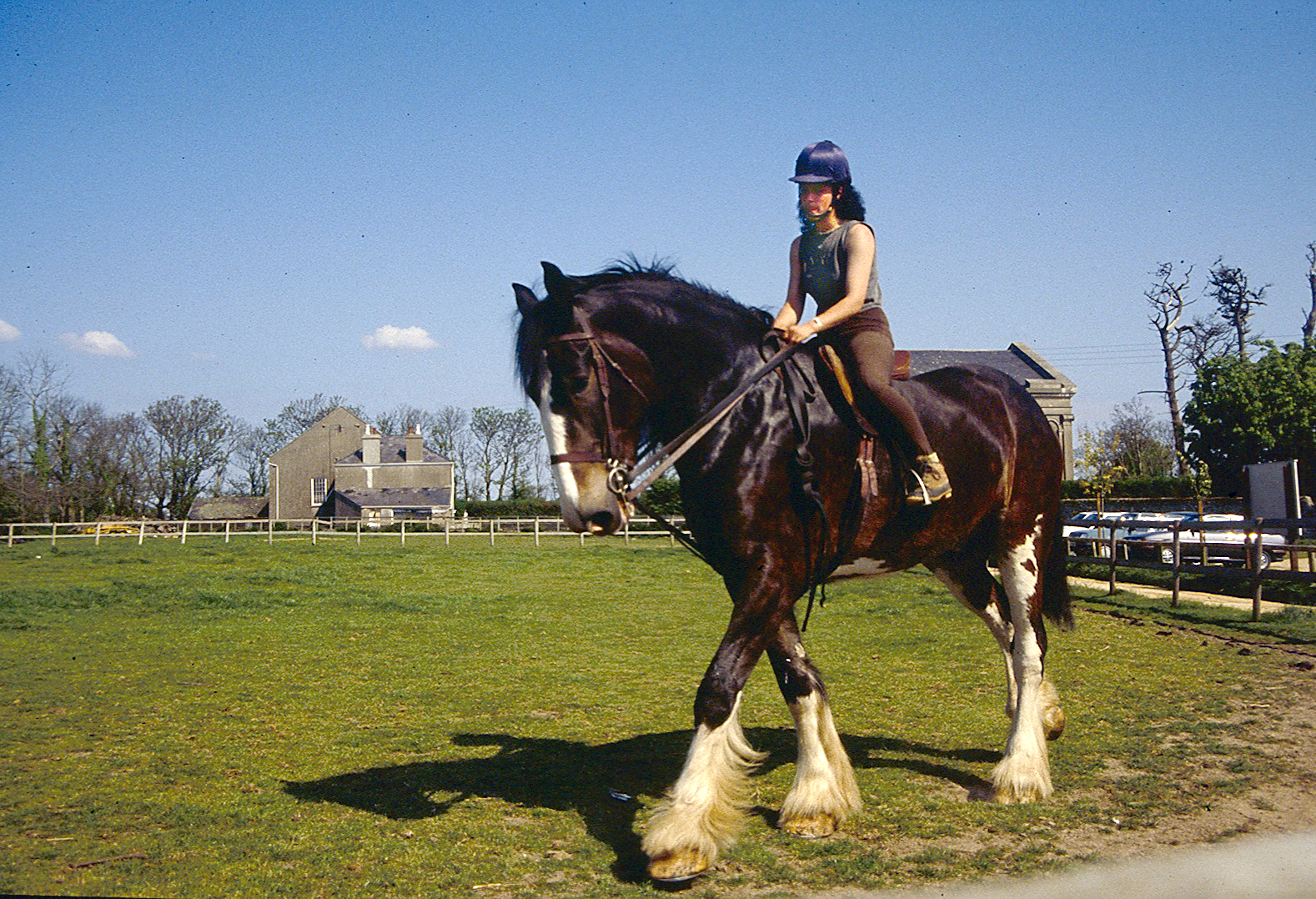 April 1990 Jersey Shire Horse Farm Kate riding Ben.